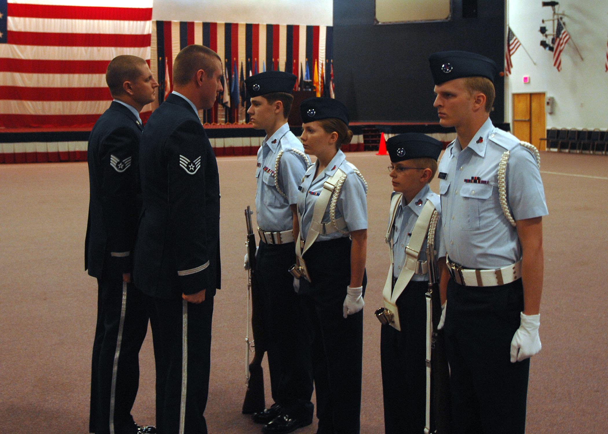 BARKSDALE AIR FORCE BASE, La, - The Civil Air Patrol Louisiana Wing Color Guard team is inspected by members of the Barksdale Honor Guard during a competition in Hoban Hall here. The occasion marks the first time in several years Barksdale has hosted the regional competition.